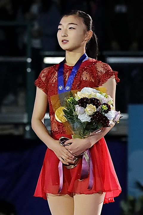 Kaori Sakamoto at 2018 Four Continents Championshios.